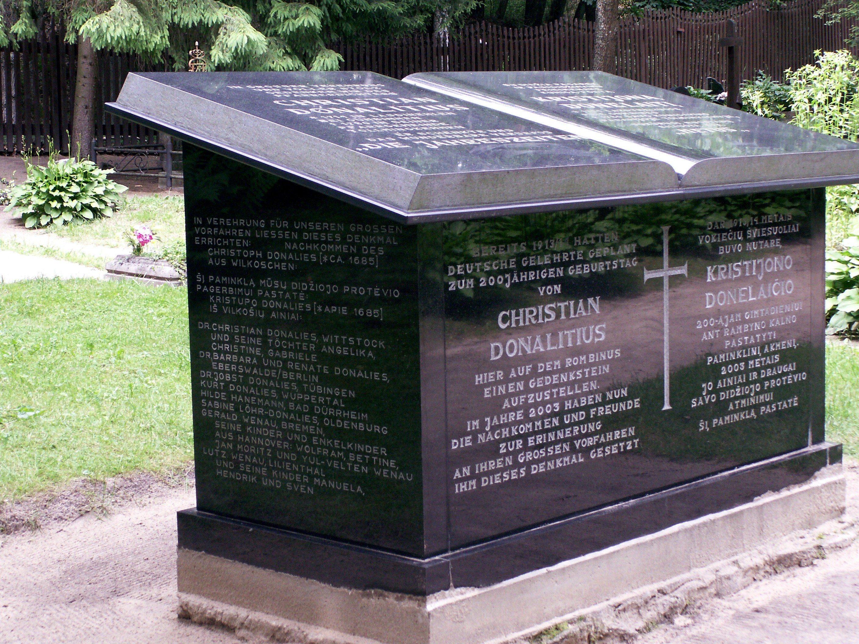 Donelaitis monument in Cemetery Bitėnai, Pagėgiai district, Lithuania